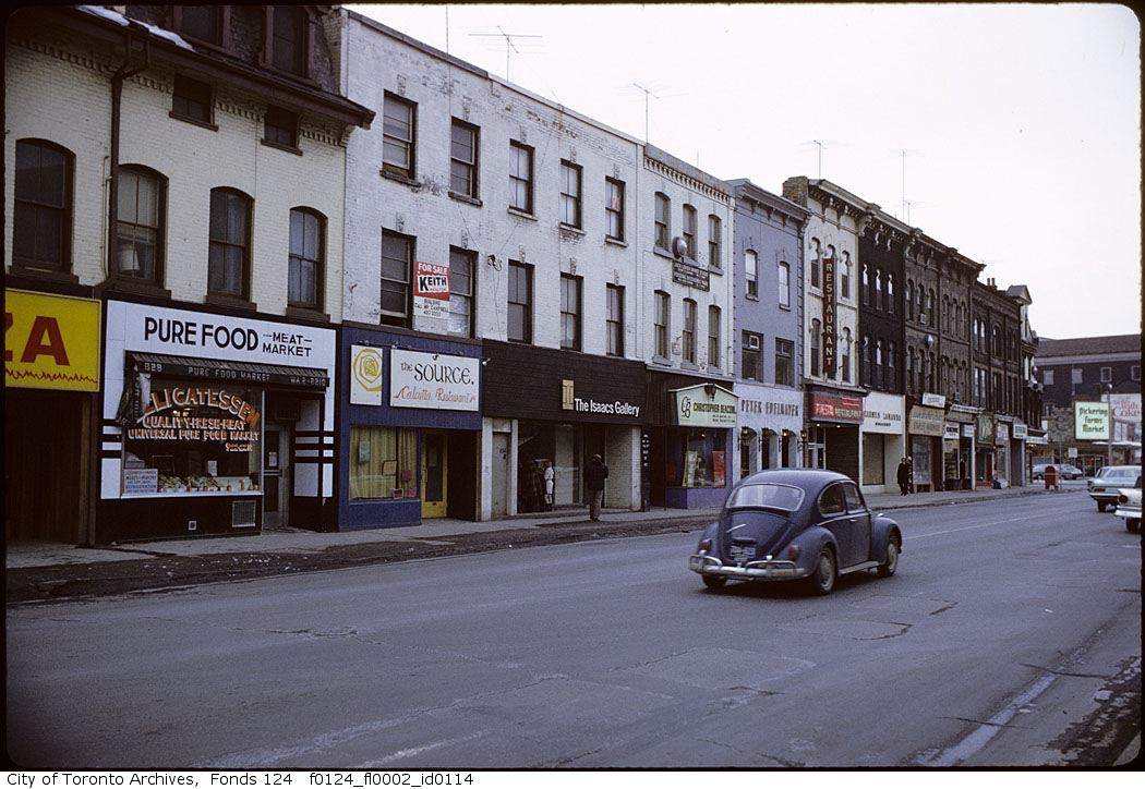 Row of shops on the west side of Yonge Street, south of Yorkville Avenue. Toronto, Ontario, Canada.